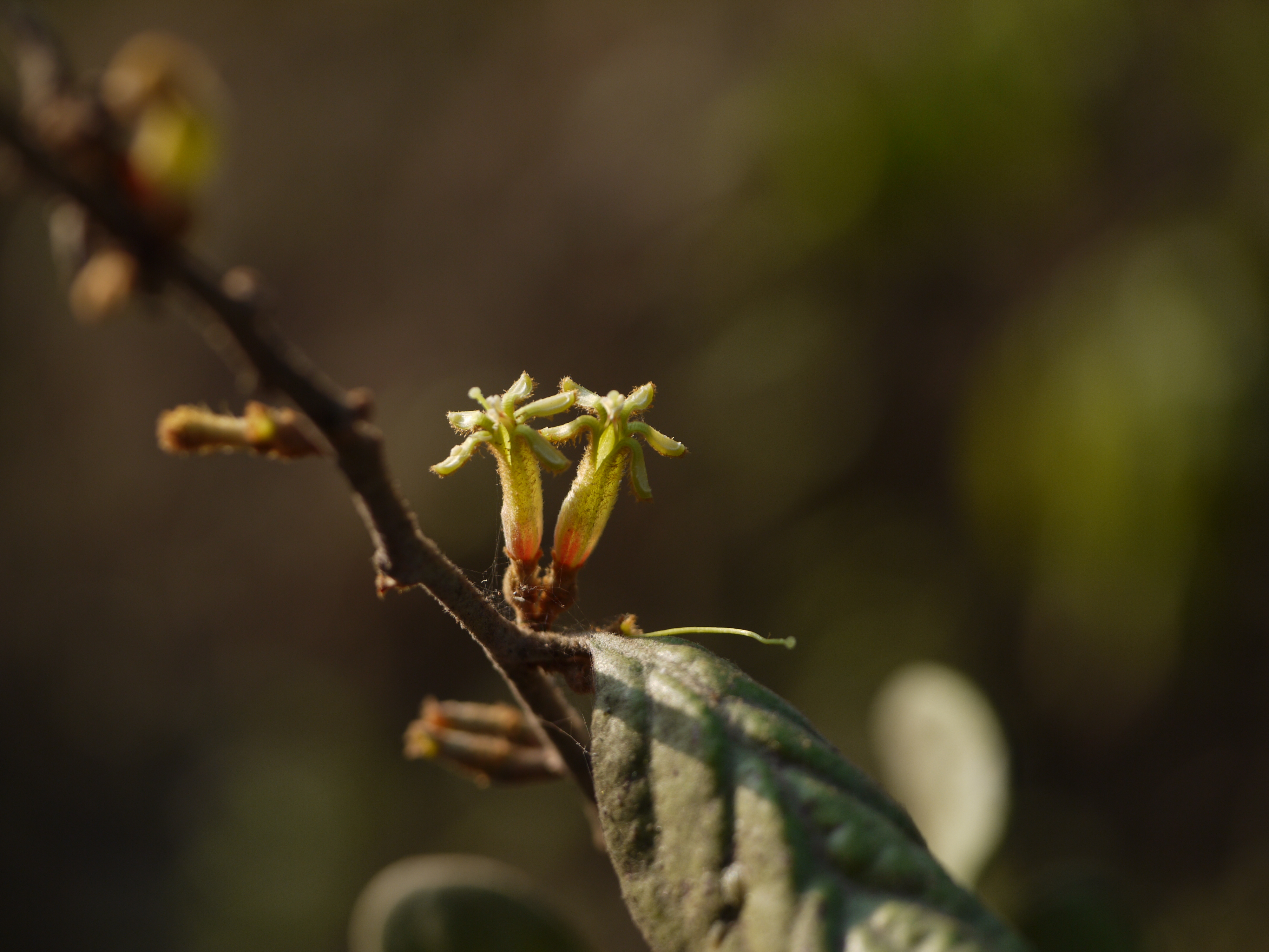 Loranthaceae (mistletoe family) » Taxillus tomentosus ¿ taks-ILL-us ? -- from the Greek taxis (regular) and illus (diminutive, small) toh-men-TOH-sus -- covered with fine, matted hairs commonly known as: hairy mistletoe • Kannada: ಉಪ್ಪಿಲು uppilu • Marathi: केसाळ बांडगुळ kesal bandgul Native to: s Western Ghats (of India), Sri Lanka References: Further Flowers of Sahyadri by Shrikant Ingalhalikar • Flora of Davanagere District • ATREE